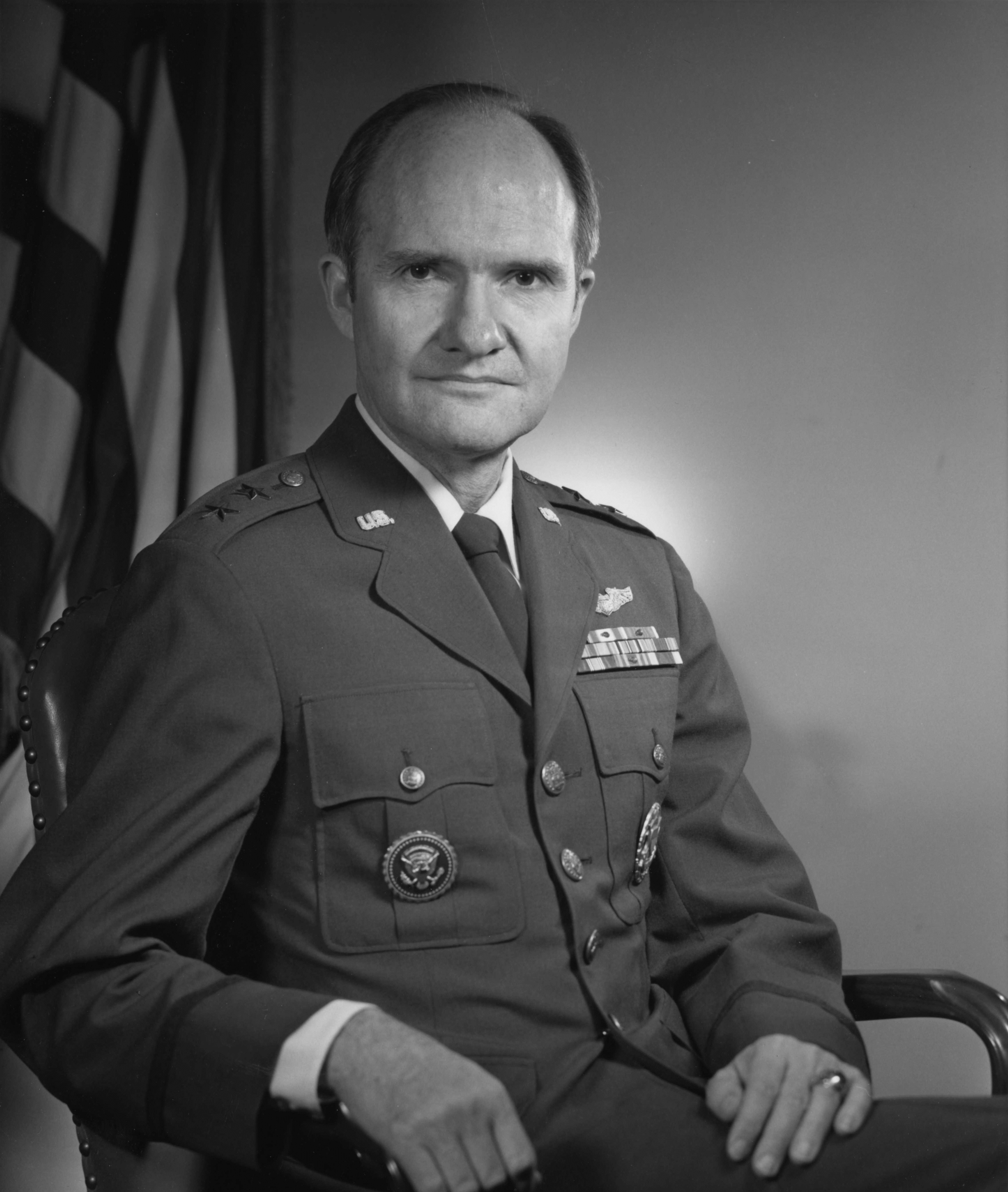 Major General Brent Scowcroft during his tenure as Deputy Assistant to President Richard Nixon in October 1973.